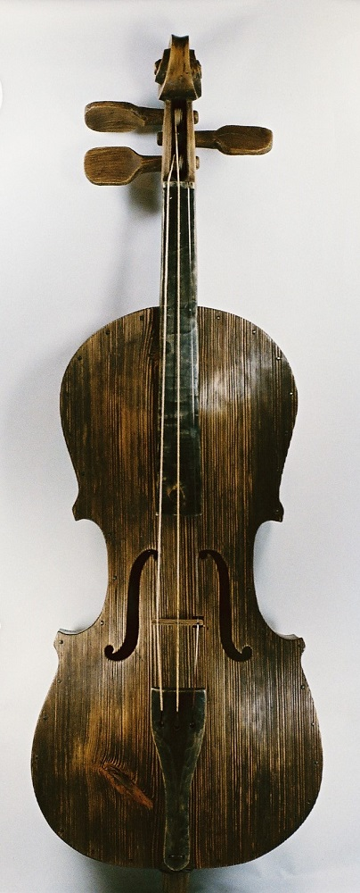 Polish basolia (basy) from Ołobok, made by Mateusz Raszewski